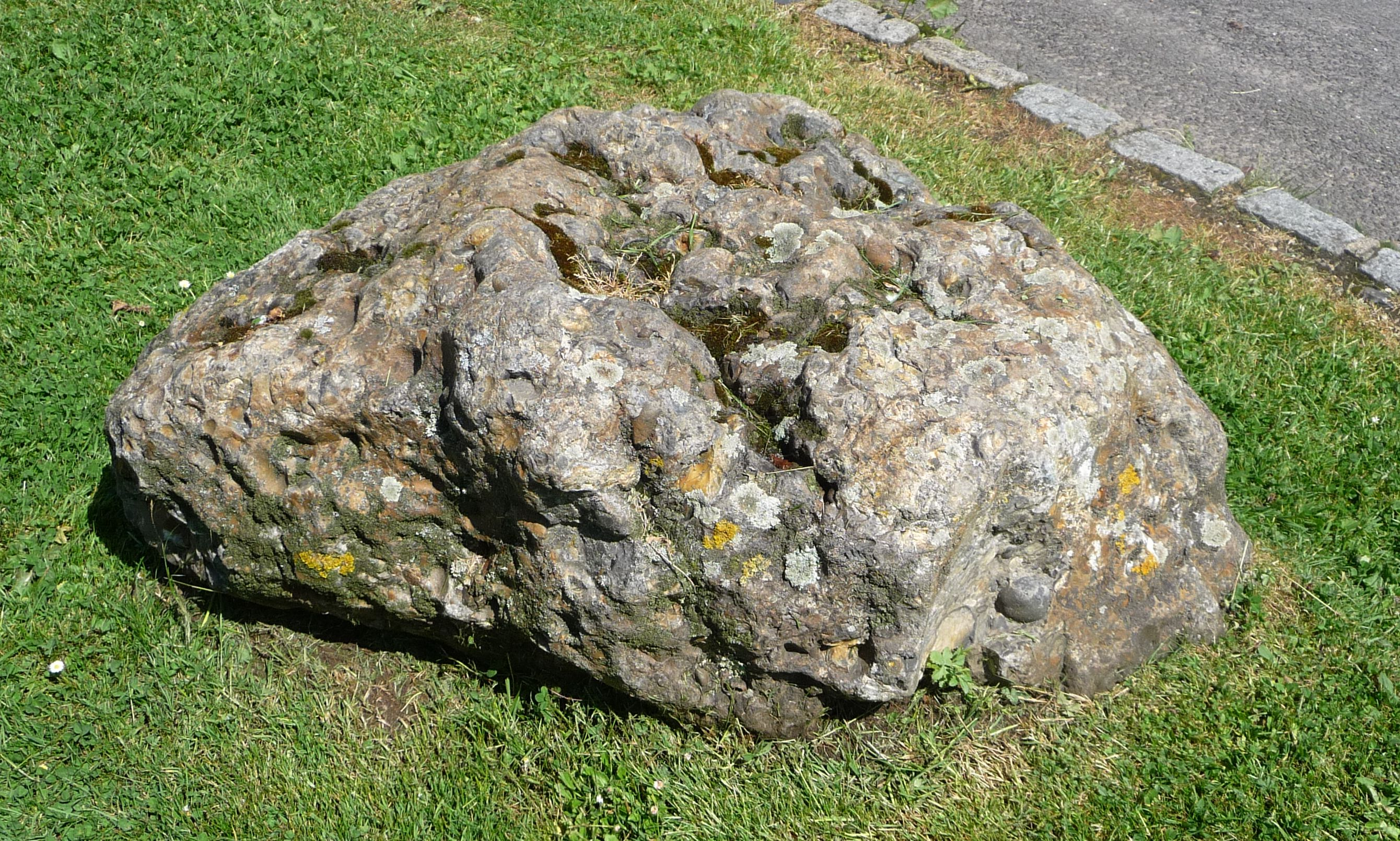 This photo of one of two pudding stones which were found in the courtyard of the 16th century Bull Inn in Nettlebed High Street. They are believed to have been used as markers for paleolithic routes